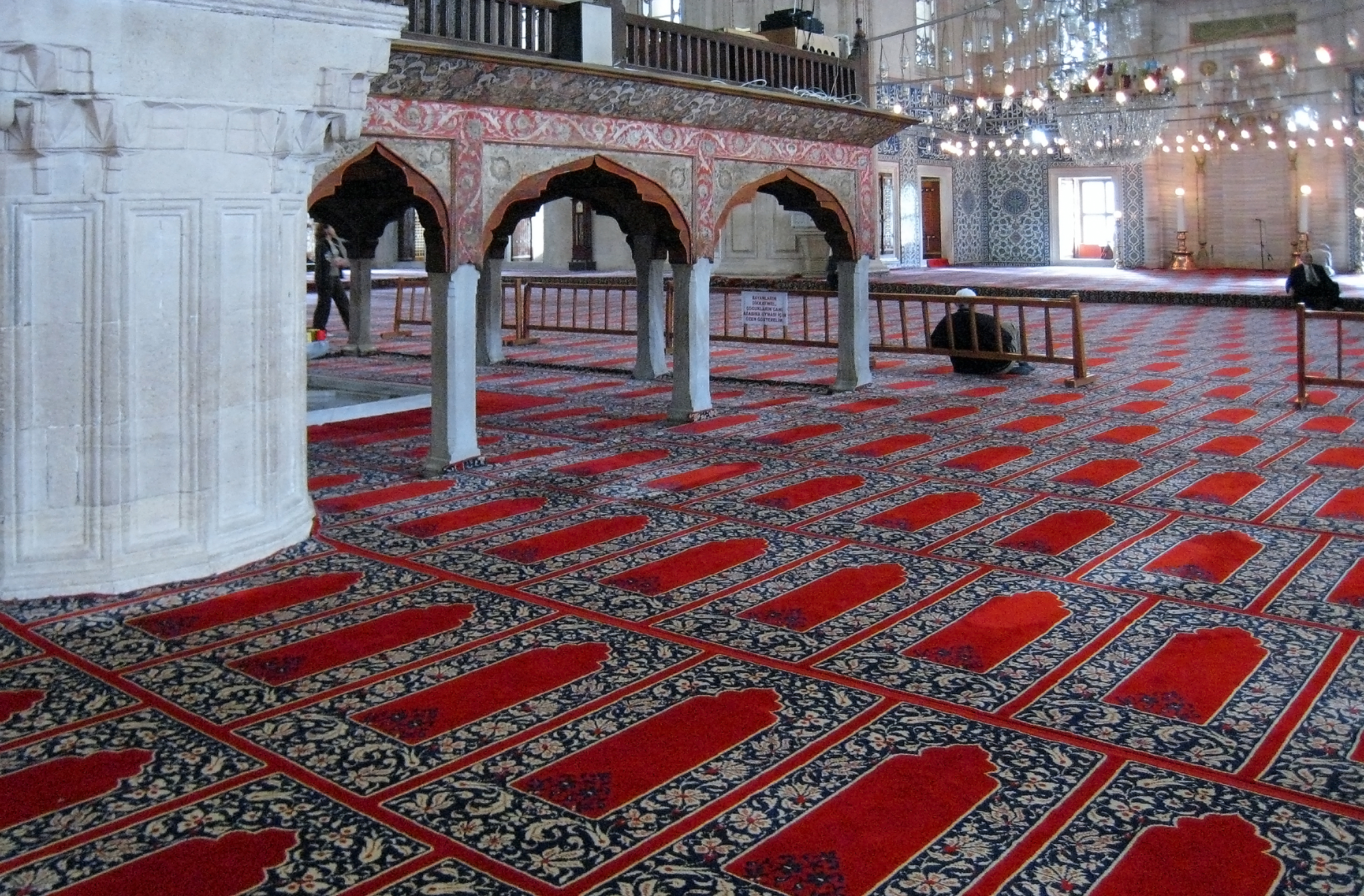 Edirne Selimiye Mosque interior